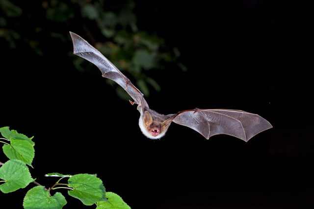 Greater mouse-eared bat flying, Myotis myotis